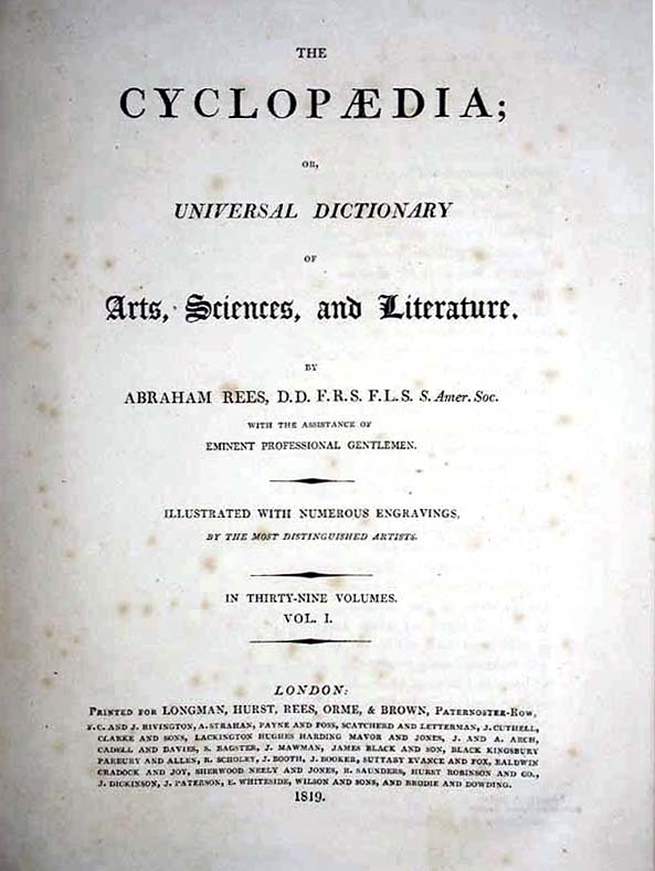 Title page of Abraham Rees's The New Cyclopaedia, or Universal Dictionary of Arts, Sciences and Literature, 1819 edition